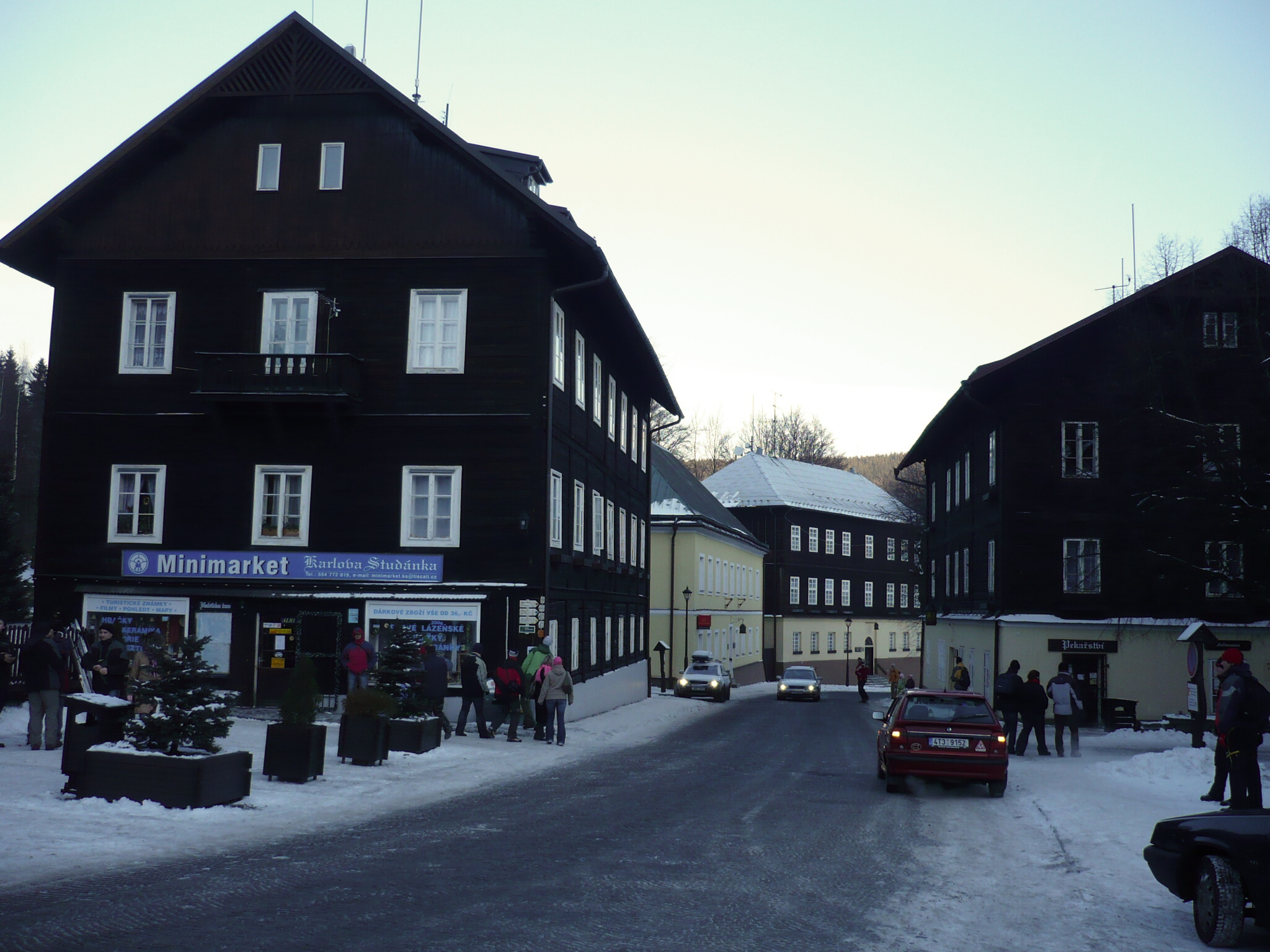 Karlova Studanka - the main street